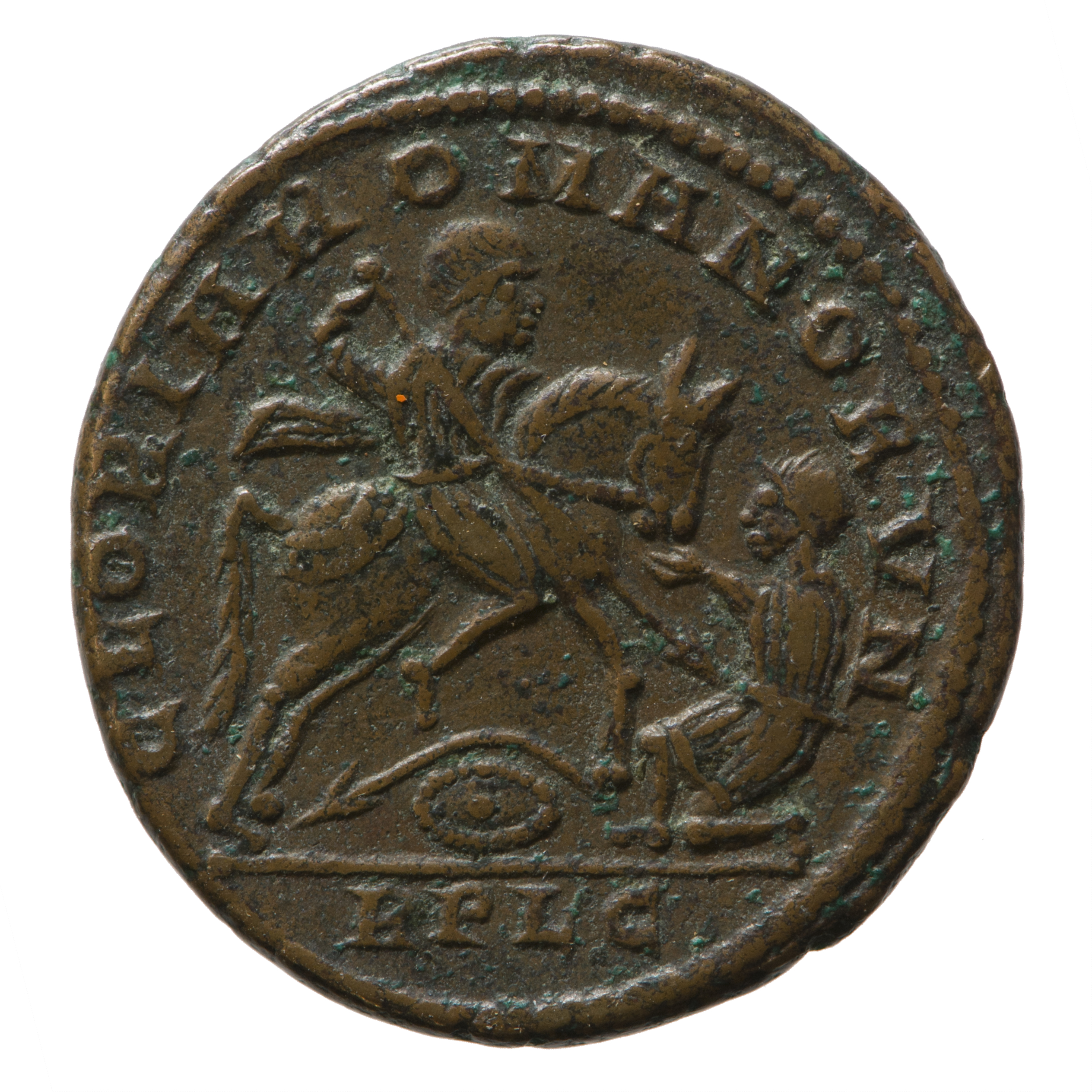 Reverse (back) of a Nummus of w. Magnentius. Magnentius on horseback right charging down barbarian.